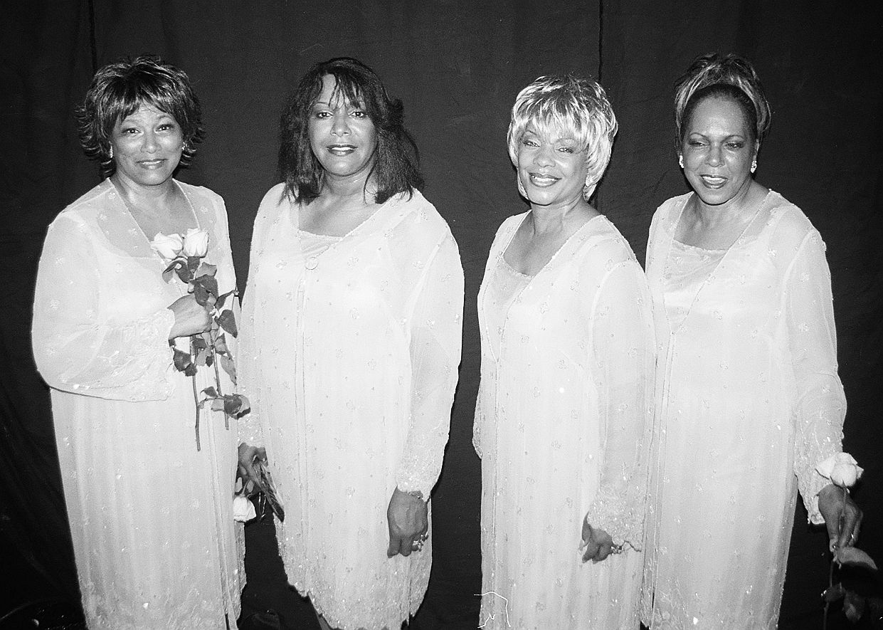 From their hometown of Baltimore M.D.